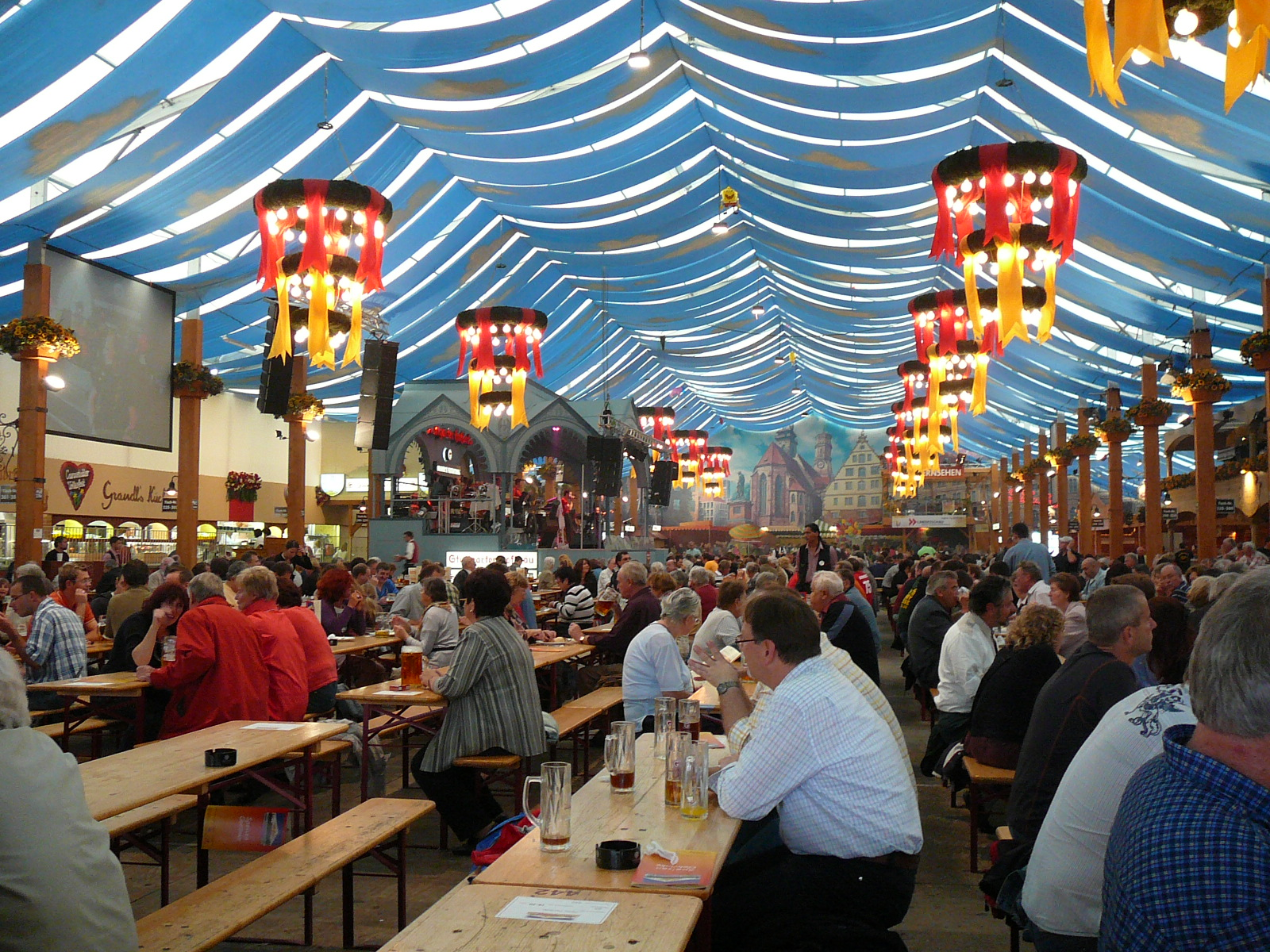 beer hall at Cannstatter-volksfest (not so crowded because at noon and on a rainy day out of weekend) - Fête de la bière à Stuttgart en périodre creuse.